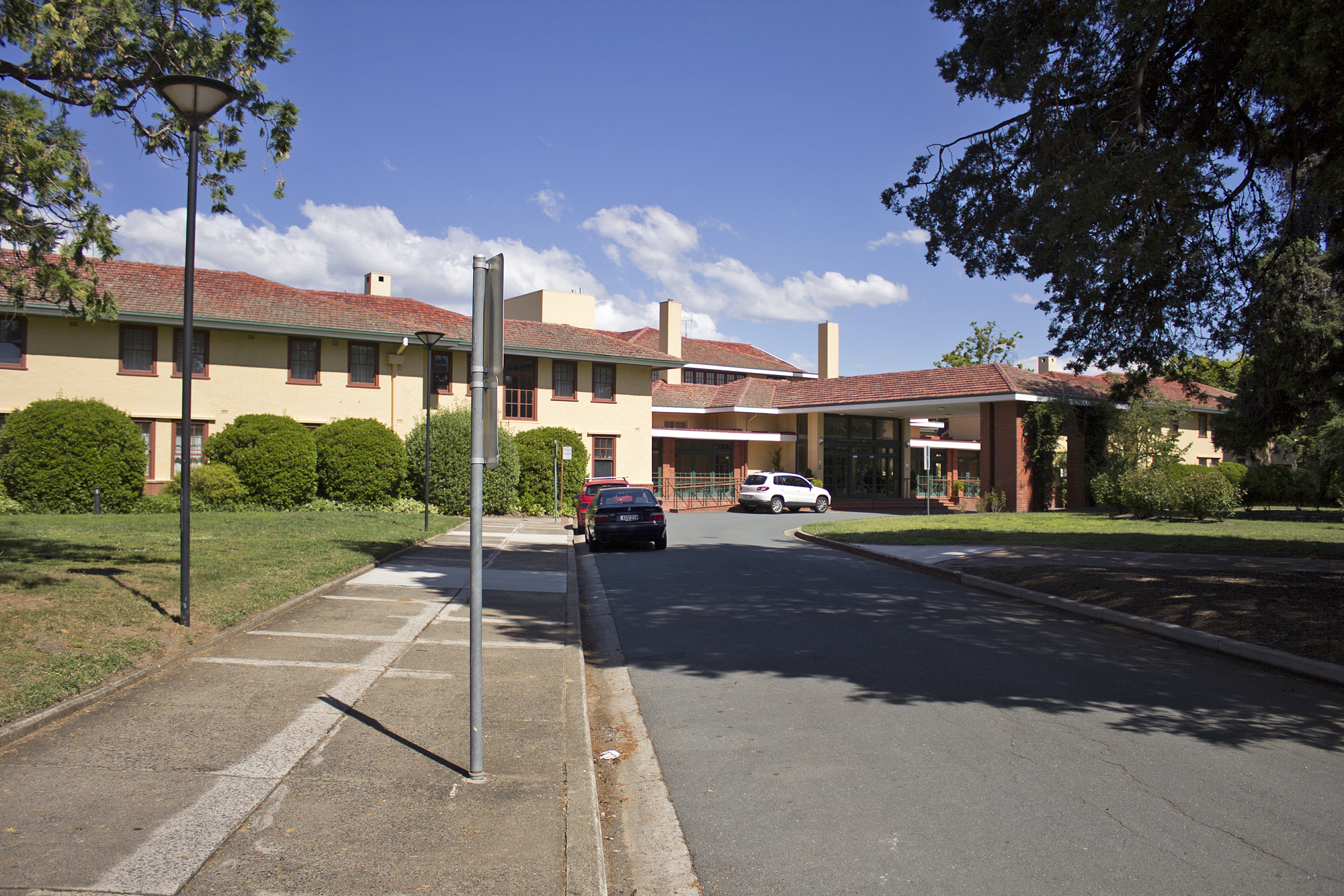 Hotel Kurrajong in Barton, Australian Capital Territory.